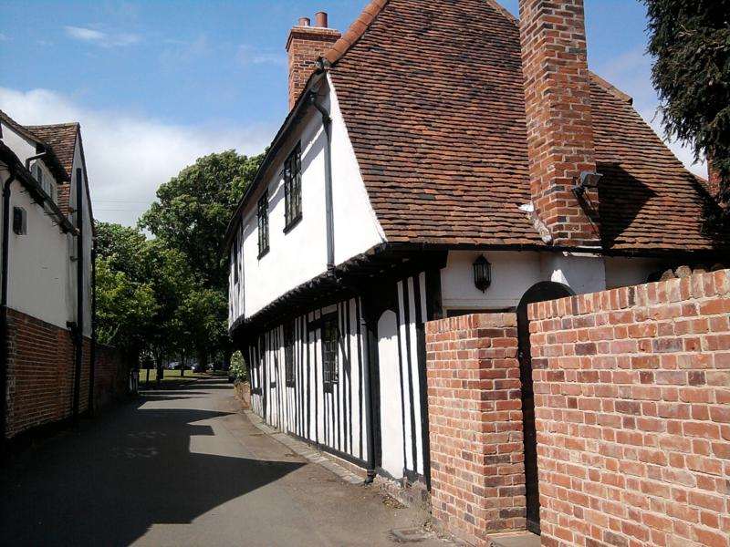 Aubyns, Writtle, Essex, Data from Geograph: Description: TL6706 :: Aubyns, Writtle, Essex, near to Writtle, Essex, Great Britain ICBM: 51.729403655553, 0.42833782003601 Location: (about 0 km from) near to Writtle, Essex, Great Britain.